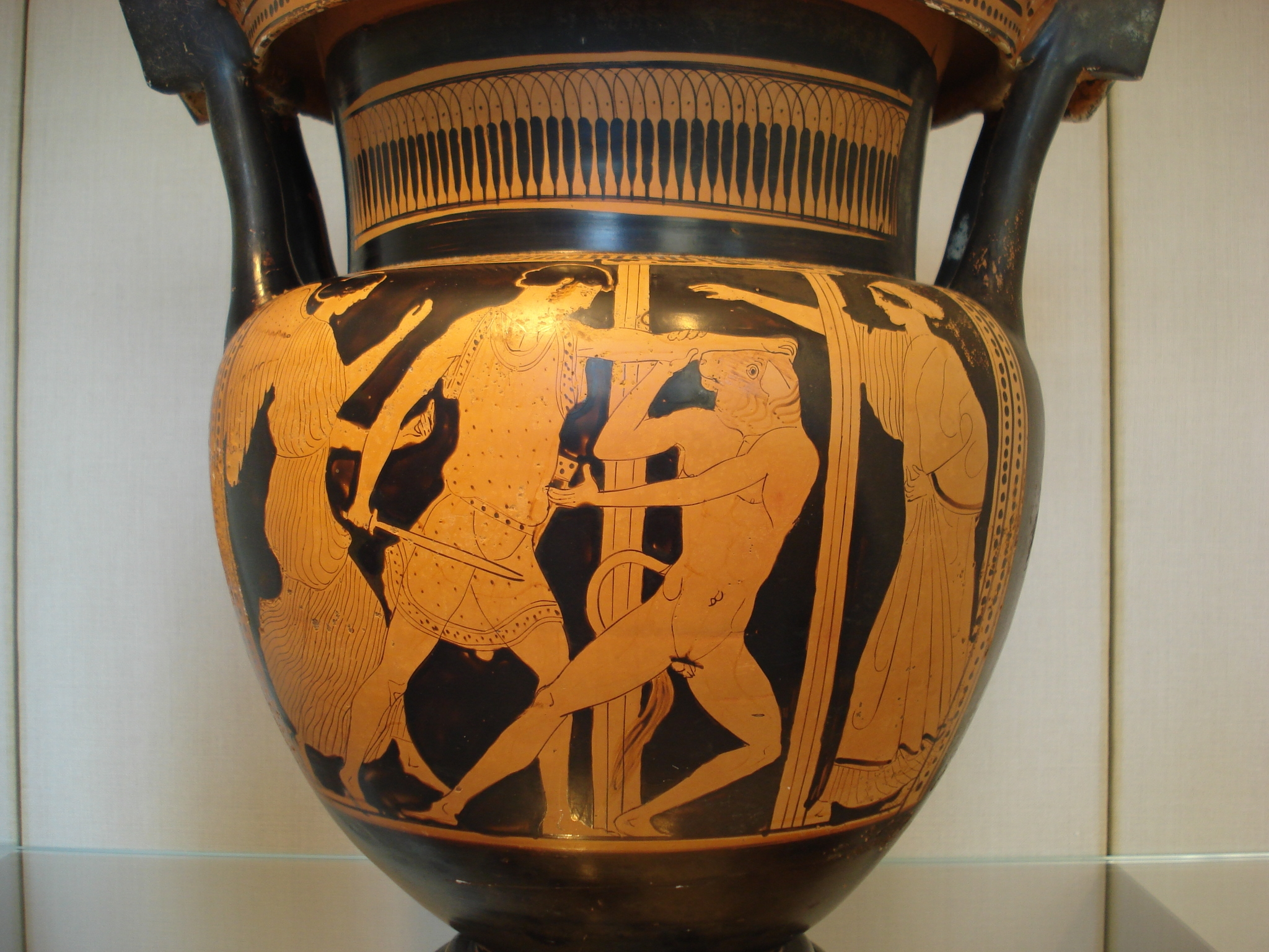 Theseus expelling the Minotaur out of the Labyrinth, flanked by Nike and Ariadne. Attic red-figure column-krater attributed to the Alkimachos Painter, c. 460 BC. Metropolitan Museum of Art (New York), Inv. 56.171.46.